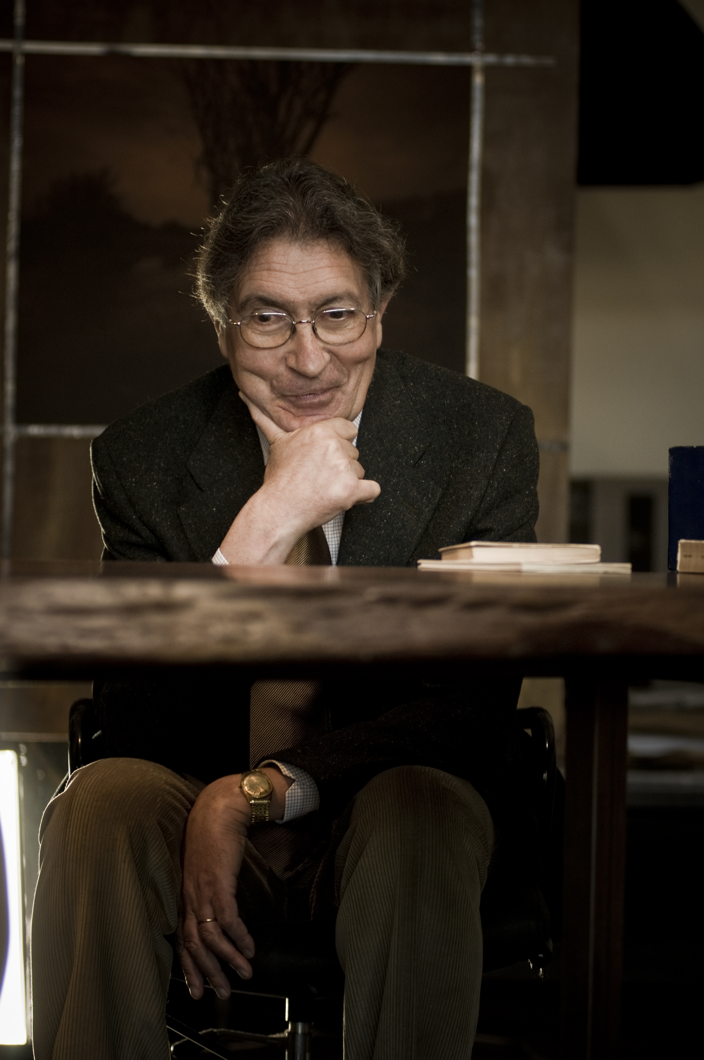 Shot taken in Viareggio, March 16 2009 during an interview